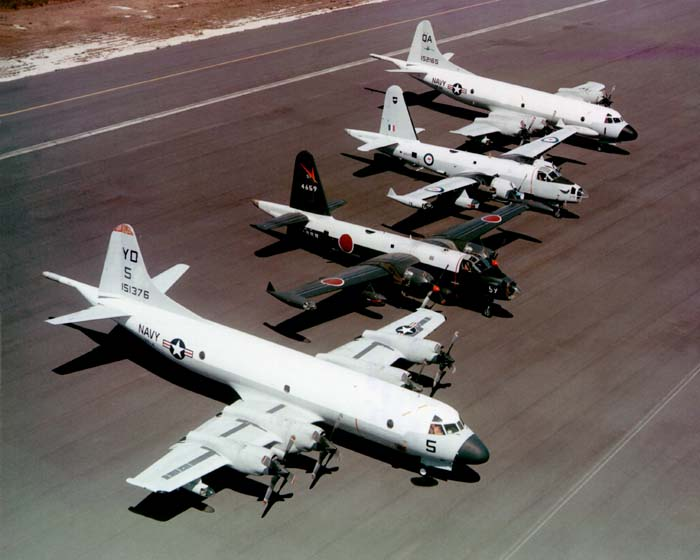 Repository: San Diego Air and Space Museum Archive